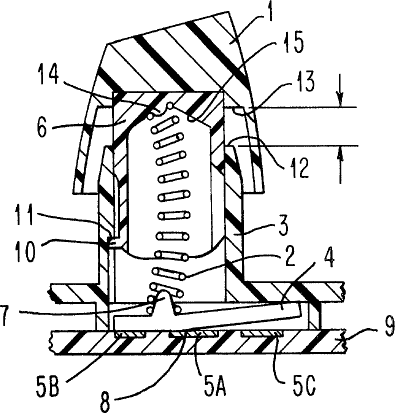 An illustration from US patent 4,118,611 "Buckling Spring Torsional Snap Actuator". Was used in the Model F and was the base of the Model M "membrane buckling spring switch".